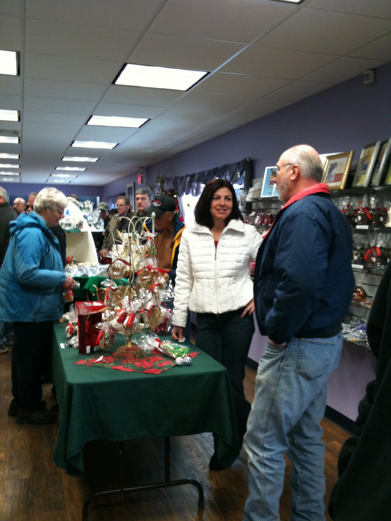 Kelly Ayotte at Fredrick's Pastry on Christmas eve in Amherst, New Hampshire.